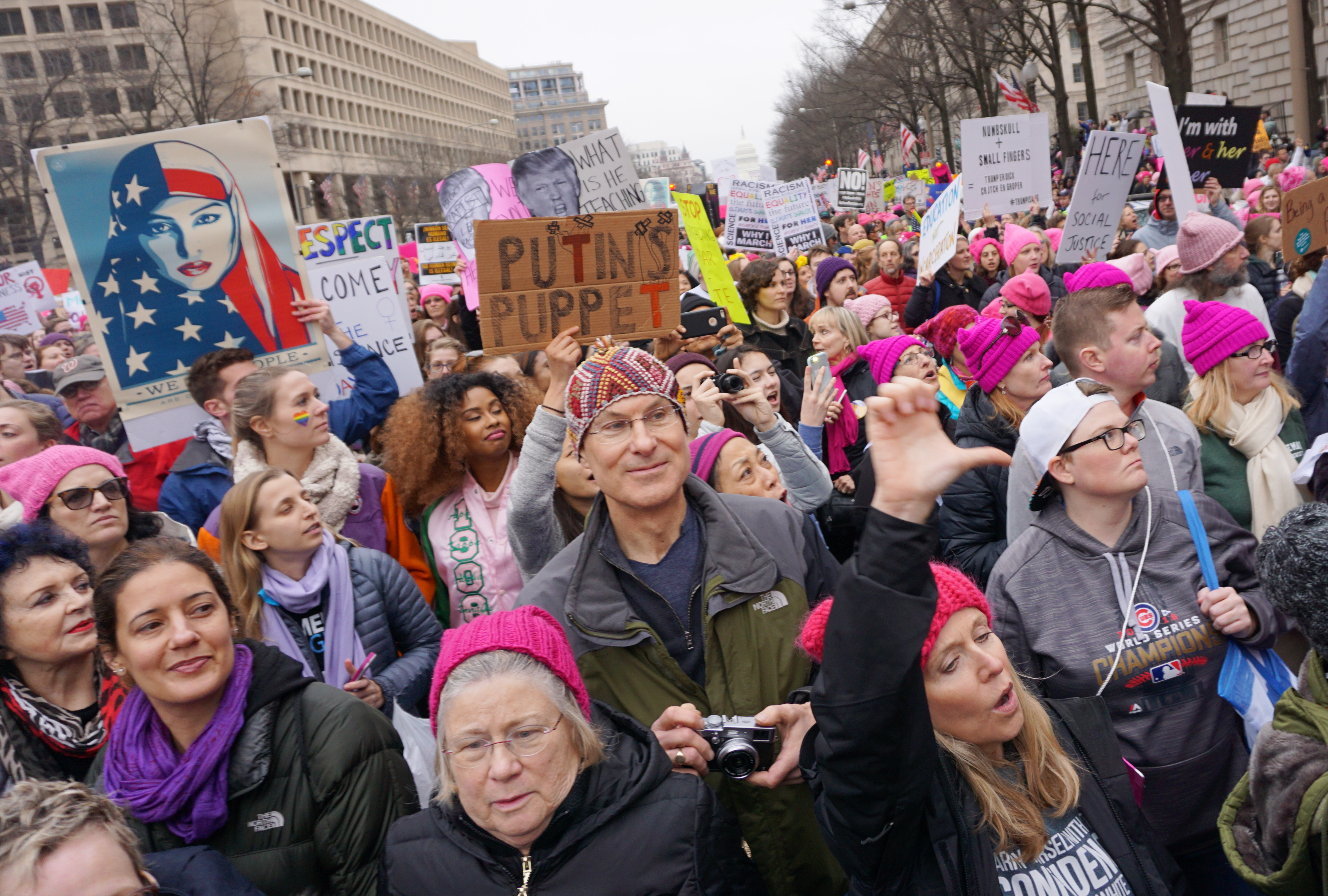 Women's March, Washington, DC